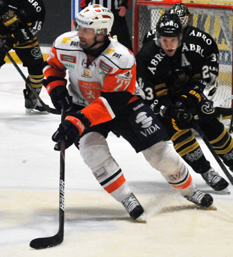 Ice hockey player Jan Hlaváč during a SHL game against AIK in 2013.